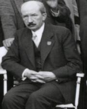 Walther Bothe, 1935 at Stuttgart on the occasion of a physicists congress.